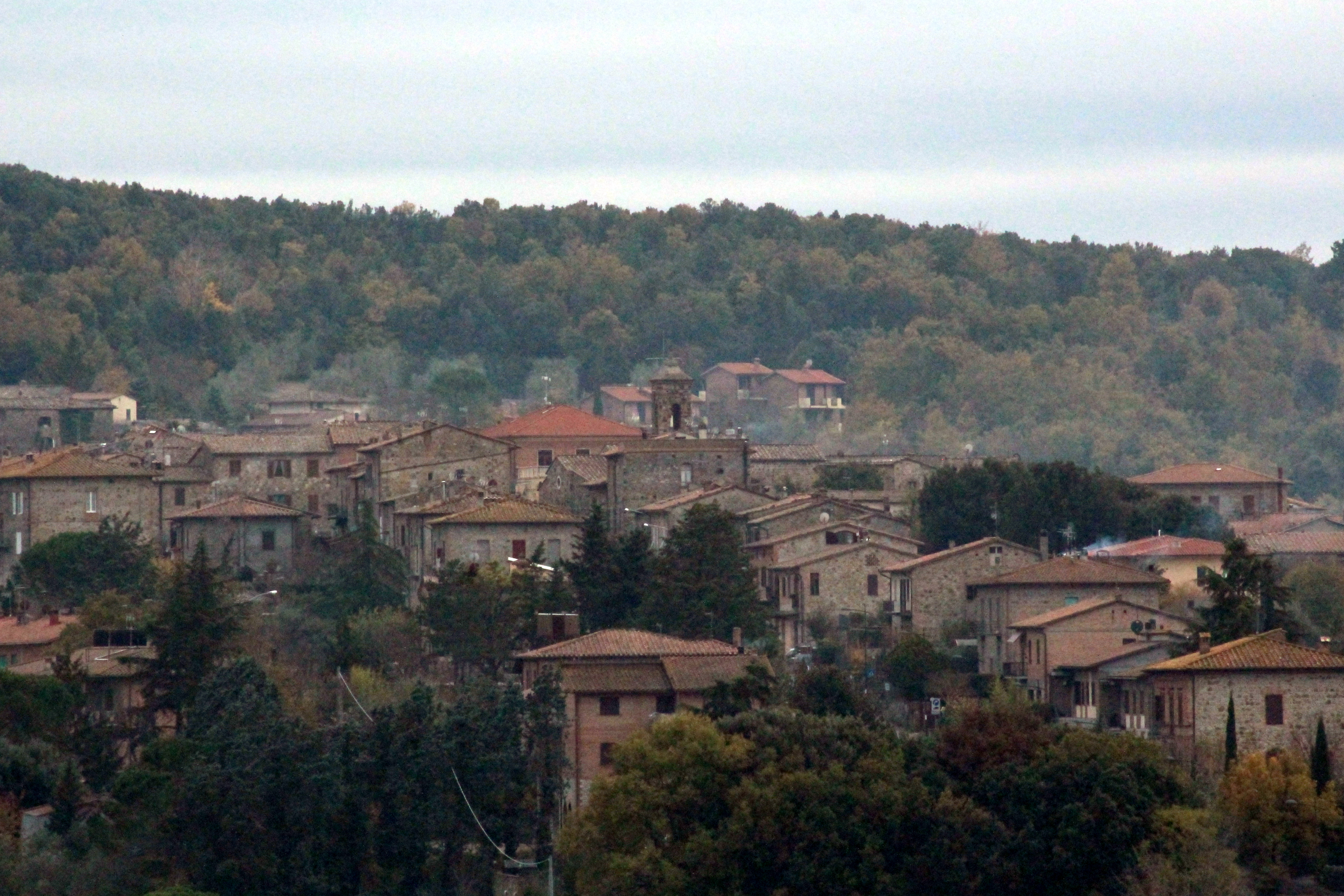 Panorama of Casciano (Casciano di Murlo, Casciano di Vescovado, Casciano delle Donne), hamlet of Murlo, Province of Siena, Italy